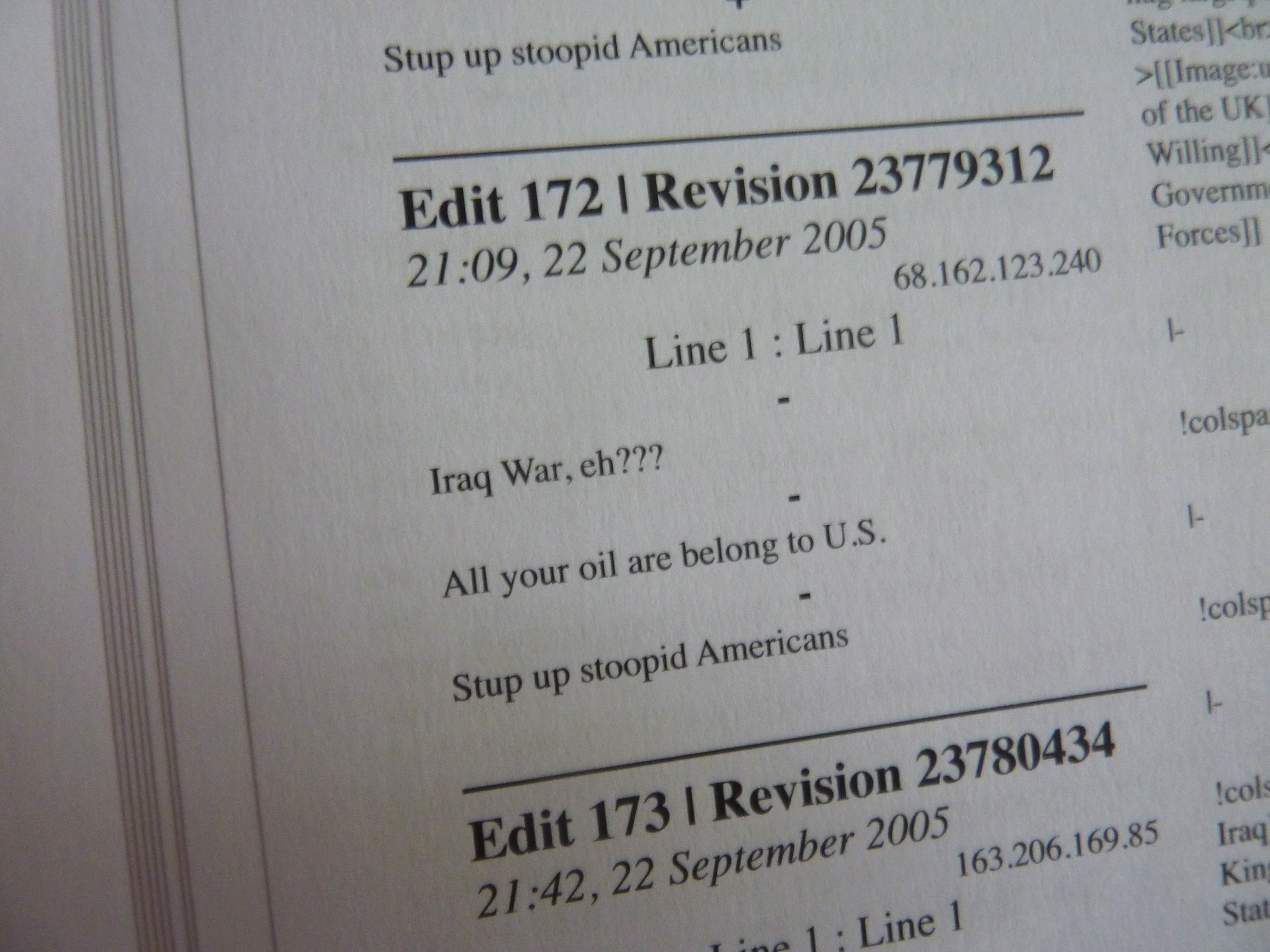 "The Iraq War: A Historiography of Wikipedia Changelogs" is a twelve-volume set of all changes to the Wikipedia article on [#%20A%20Historiography%20of%20Wikipedia%20Changelogs the Iraq War]. The twelve volumes cover a five year period from December 2004 to November 2009, a total of 12,000 changes and almost 7,000 pages. The set is part of a project exploring history and historiography facilitated by the internet, and visualising information, opinion, narrative and discussion, by James Bridle. More information can be found at .